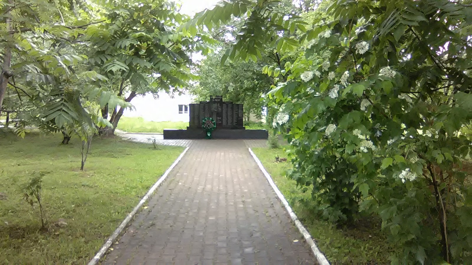 Монумент